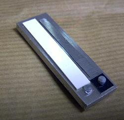 Accordion reed plate with its reeds (one visible, the second one invisible) and leathers (one visible, the second one invisible)